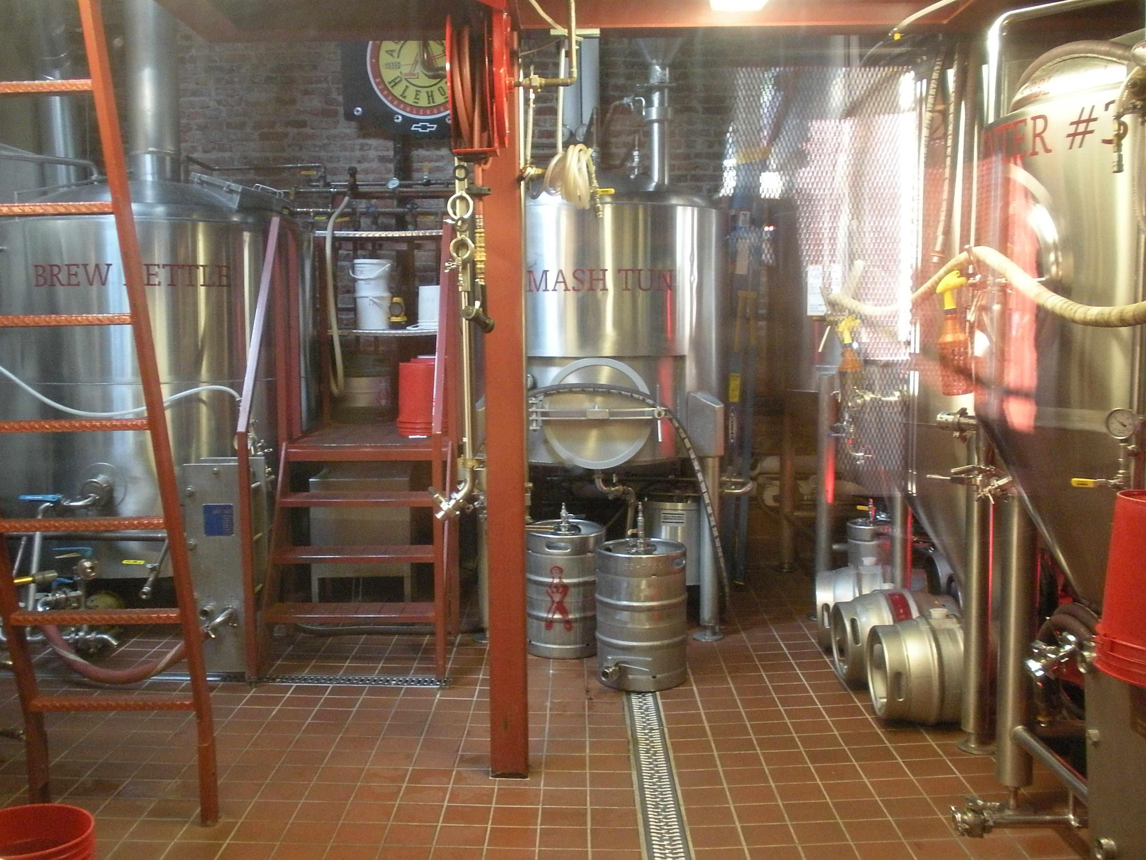 This is the brewery at Auburn Alehouse in Auburn, California. Originally posted at my Flickr